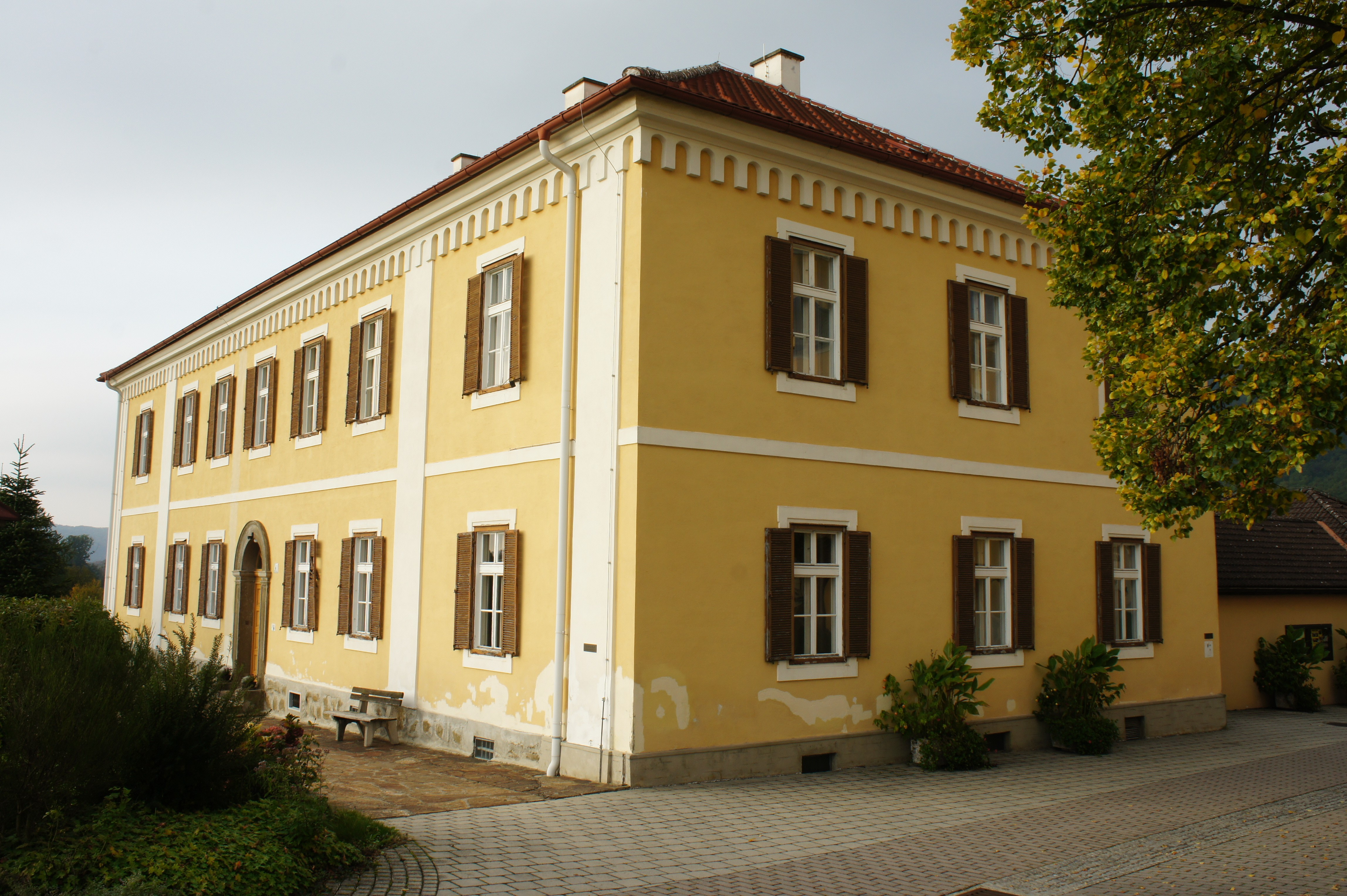 Hospice of the Franciscan, Bad Gleichenberg, Austria